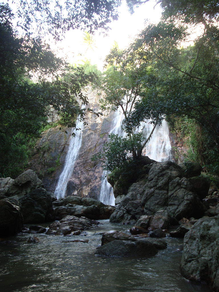 Namuang #1, a 18 meter high waterfall at Koh Samui, Thailand